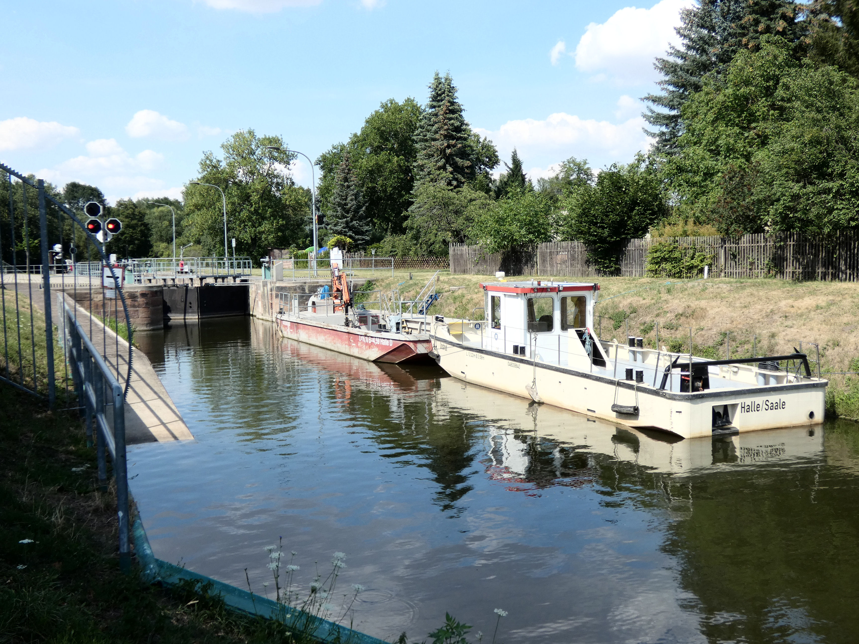 River lock Herrenmühlenschleue, Weissenfels